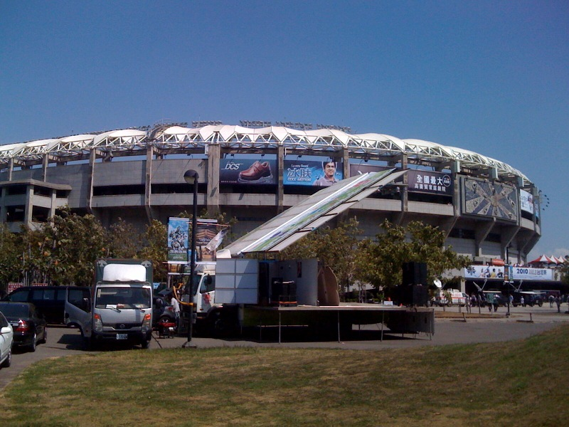 MLB Taiwan Games 2010 at Chengcing Lake Baseball Field.